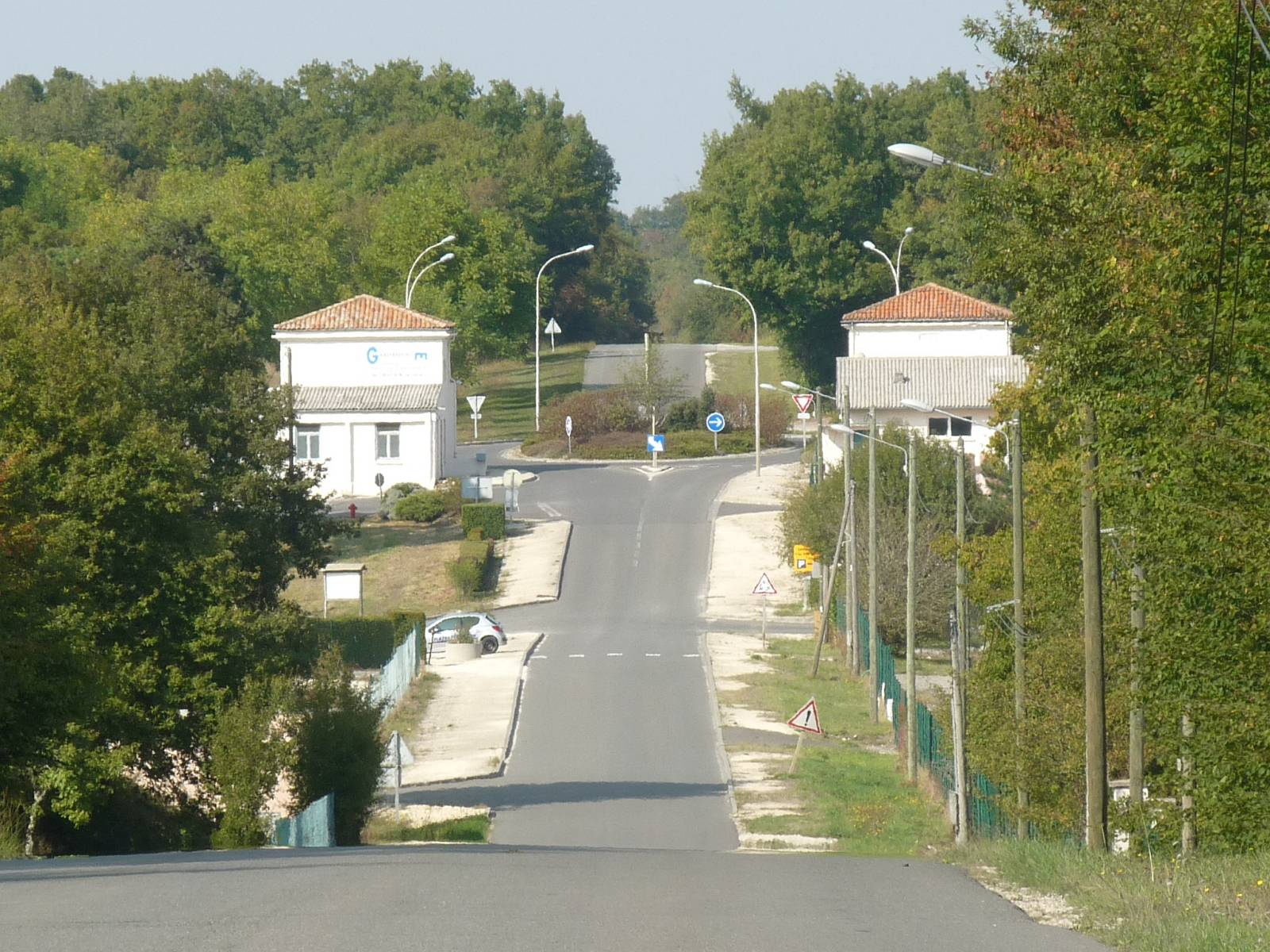 Former US military camp, now industrial estate, Braconne forest, Charente, SW France